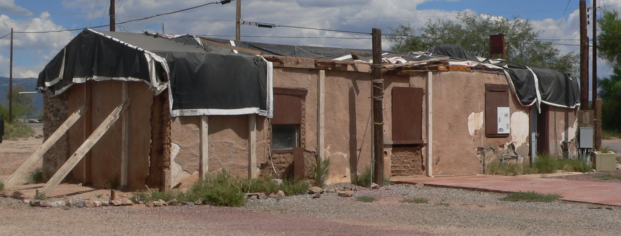 Old Vail post office, located at 13105 Colossal Cave Road in Vail, Arizona; seen from the west.